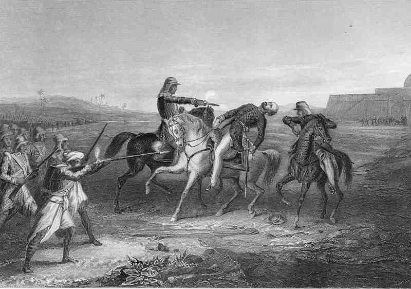 "Colonel Platt killed by the mutineers at Mhow," from 'The History of the Indian Mutiny' by Charles Ball, London, 1858* Source: ebay, Oct. 2009